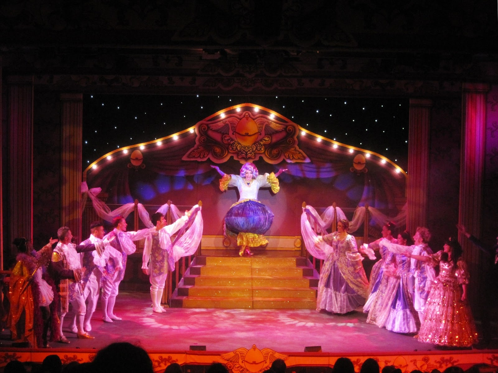 Millfield Theatre is famous for its annual Christmas Pantomime.